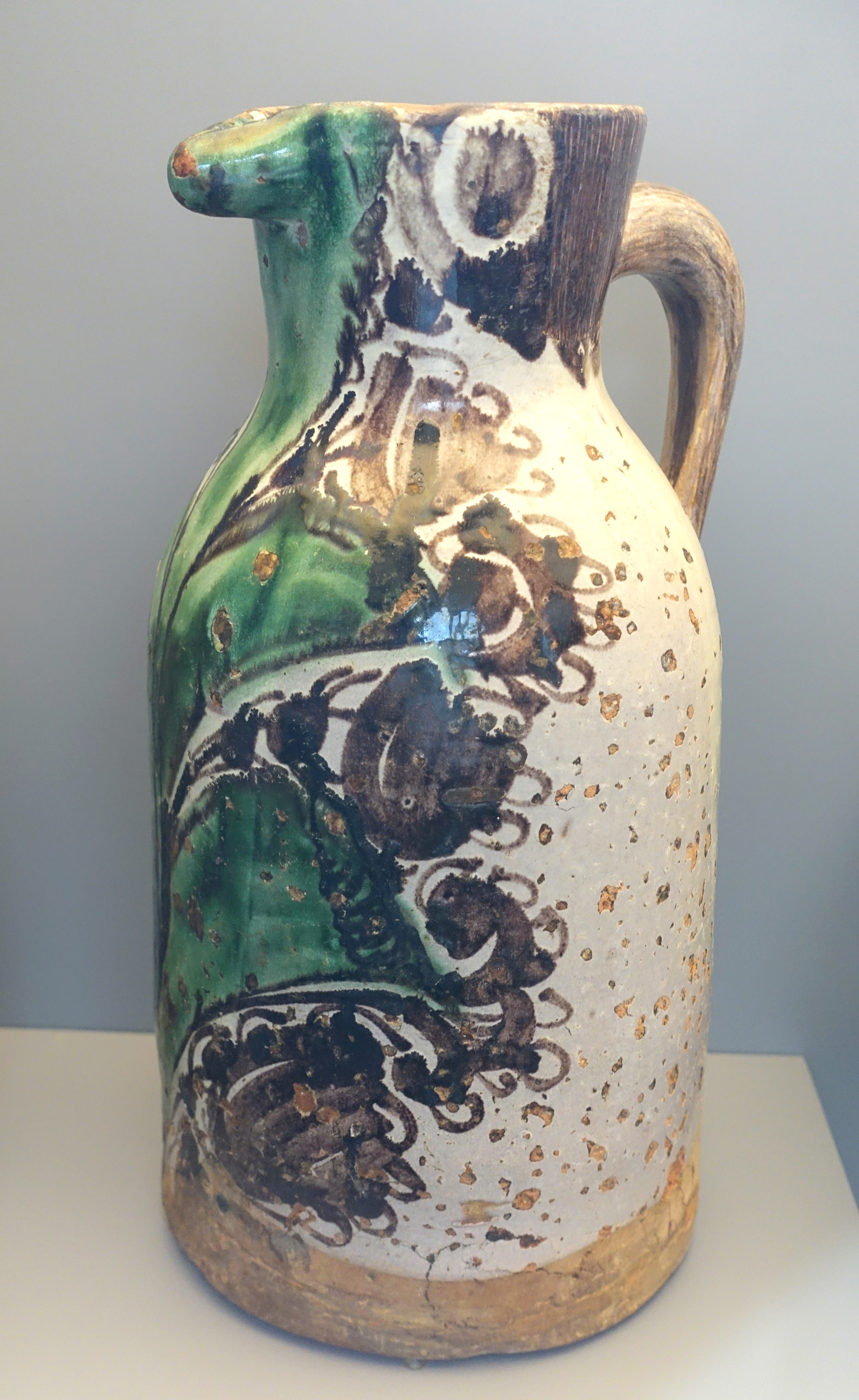 Exhibit in the Museo Nacional de Artes Decorativas, Madrid, Spain. This work is in the public domain because the artist died more than 100 years ago.